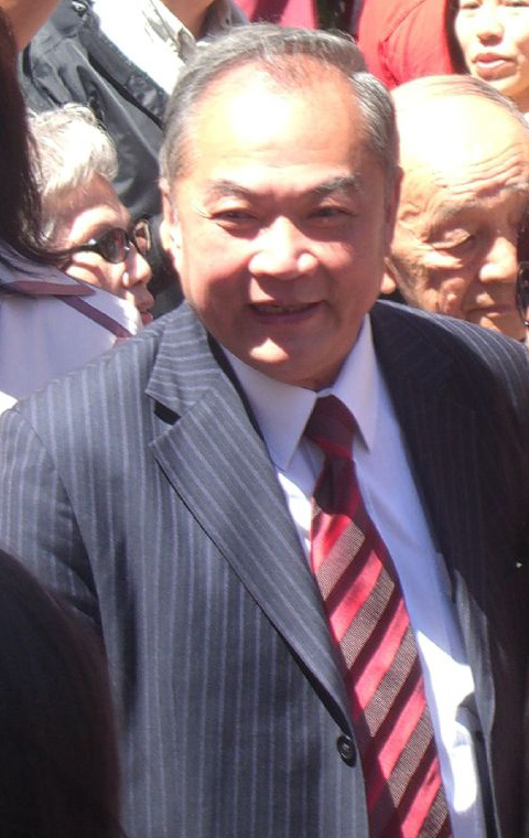 Cropped version of John So